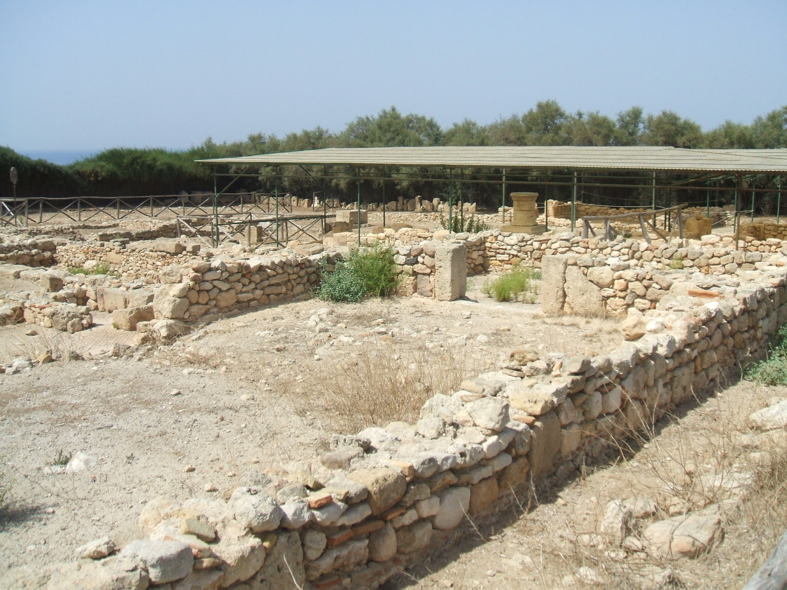 Camarina archaeological site : House of the Altar quarter